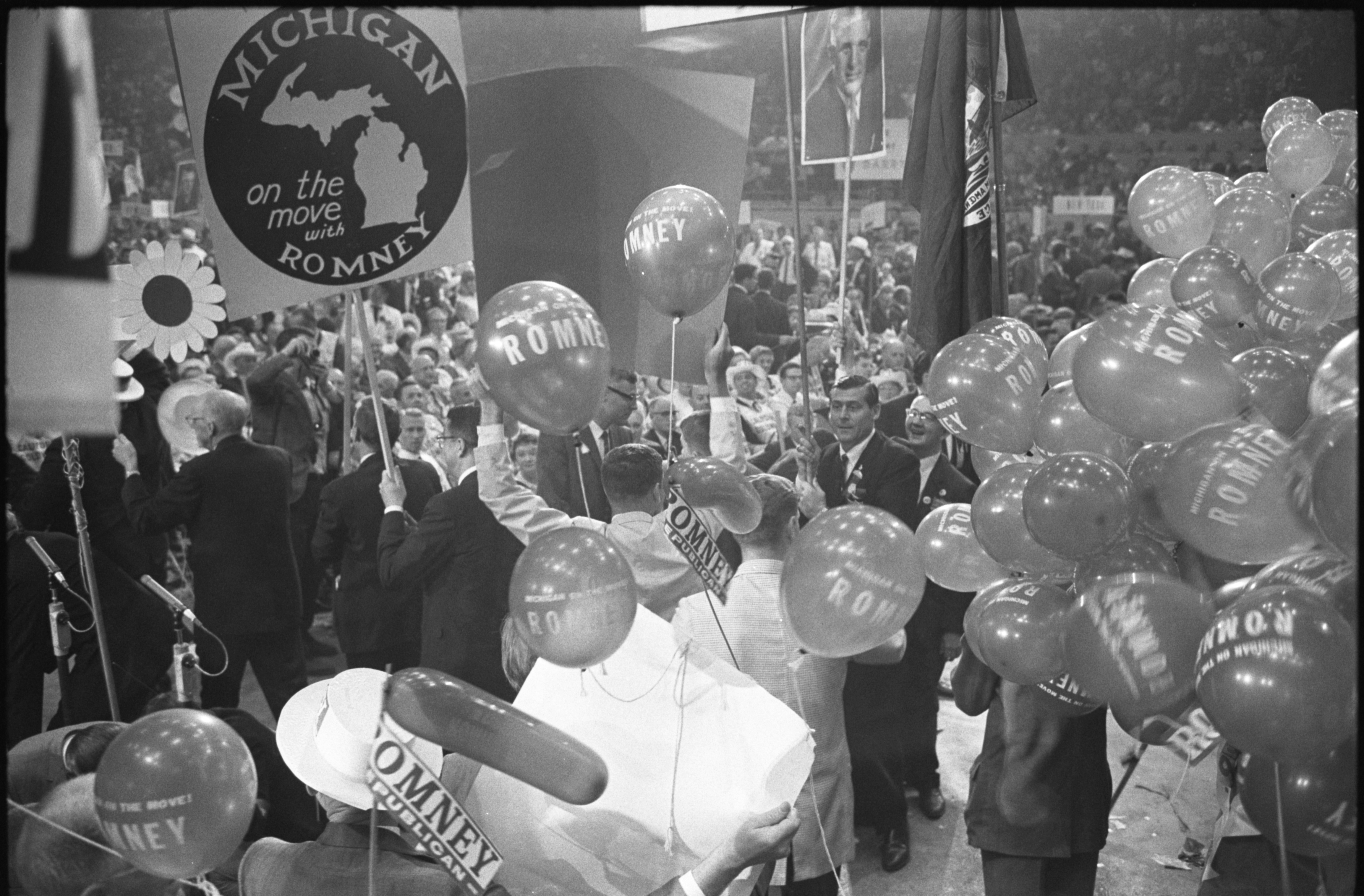 Delegates to the 1964 Republican National Convention in San Francisco, hold signs and balloons supporting George Romney